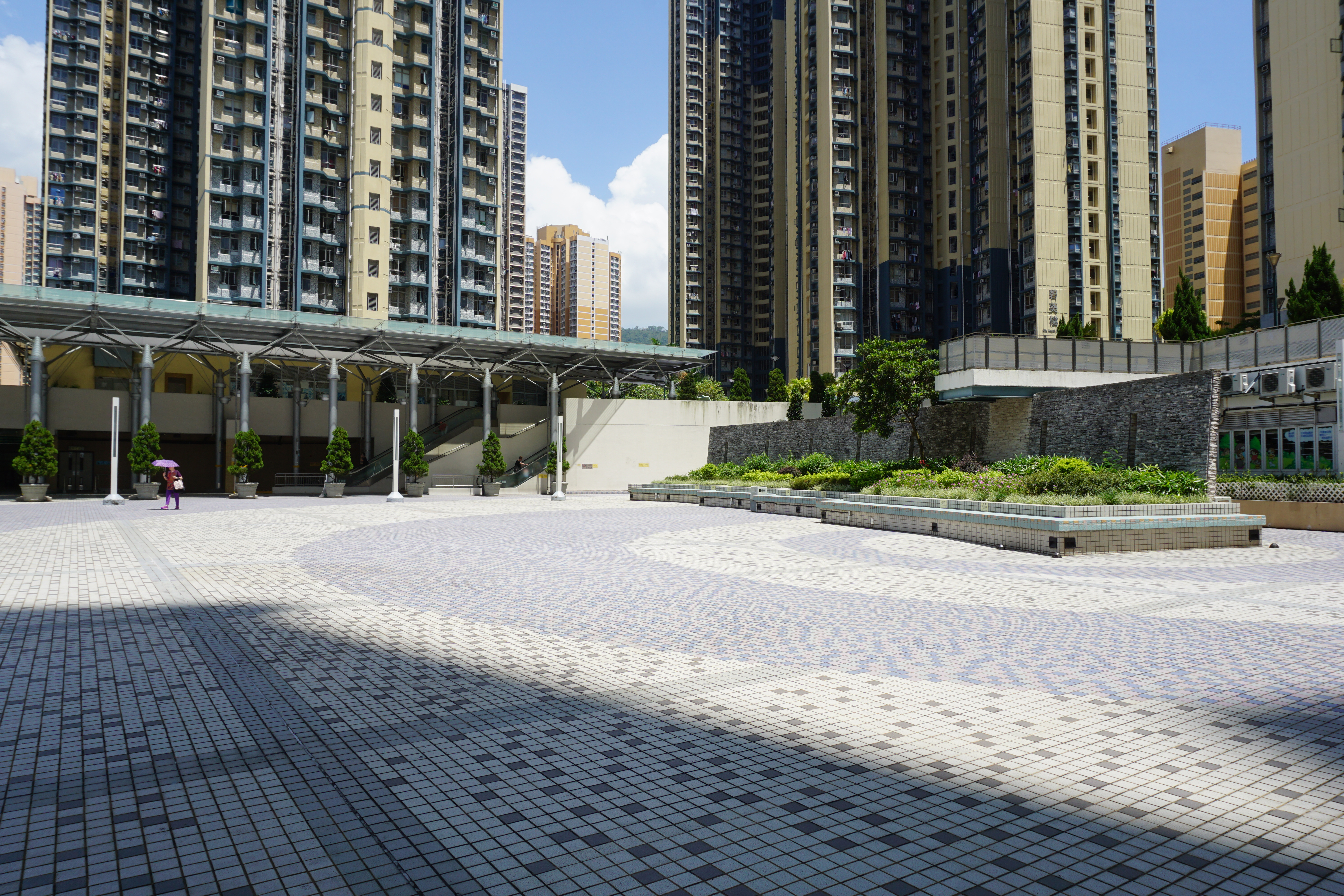 Kwai Chung Estate in Tai Wo Hau, Hong Kong.